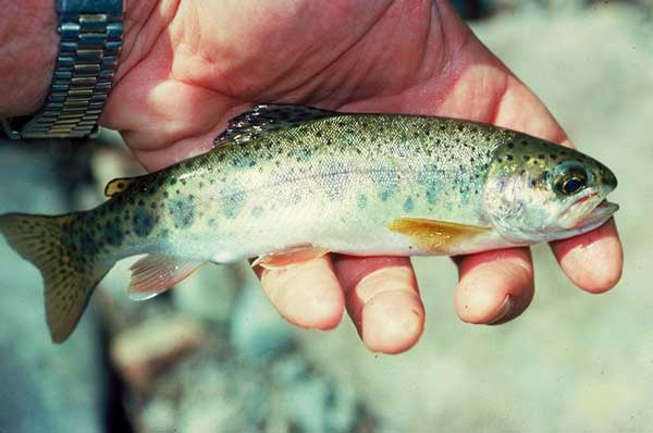 A rainbow trout (Oncorhynchus mykiss) in Boise National Forest, Idaho